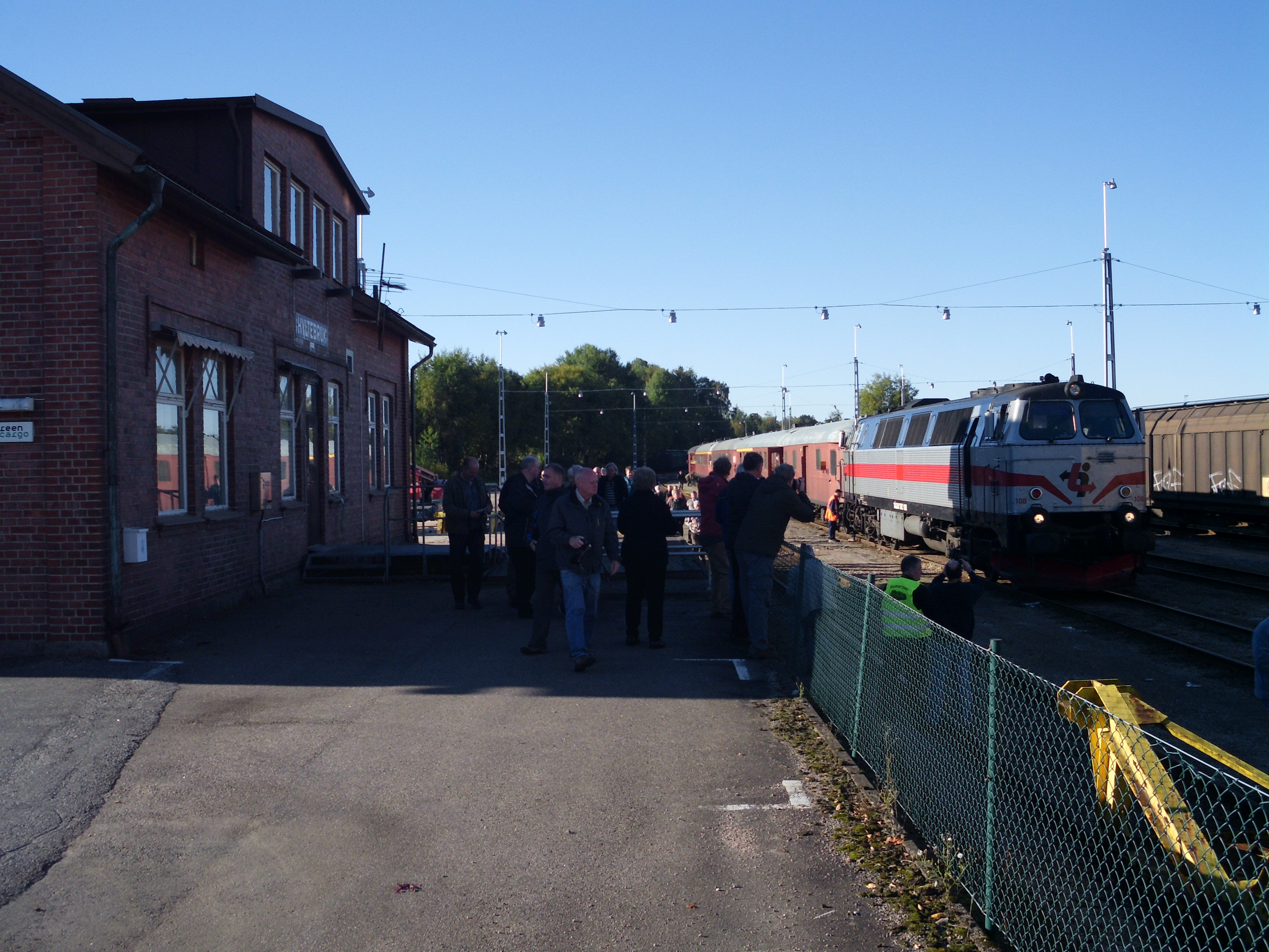 Tourist train at a freight station in Hyltebruk, Sweden.